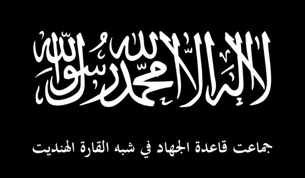 The Shahada written in white on a black background.